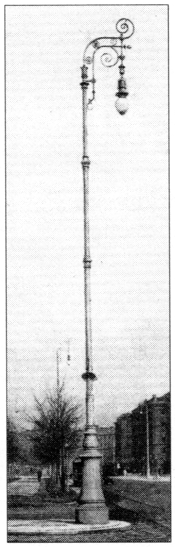 Streetlight "Bischofsstab", Vienna